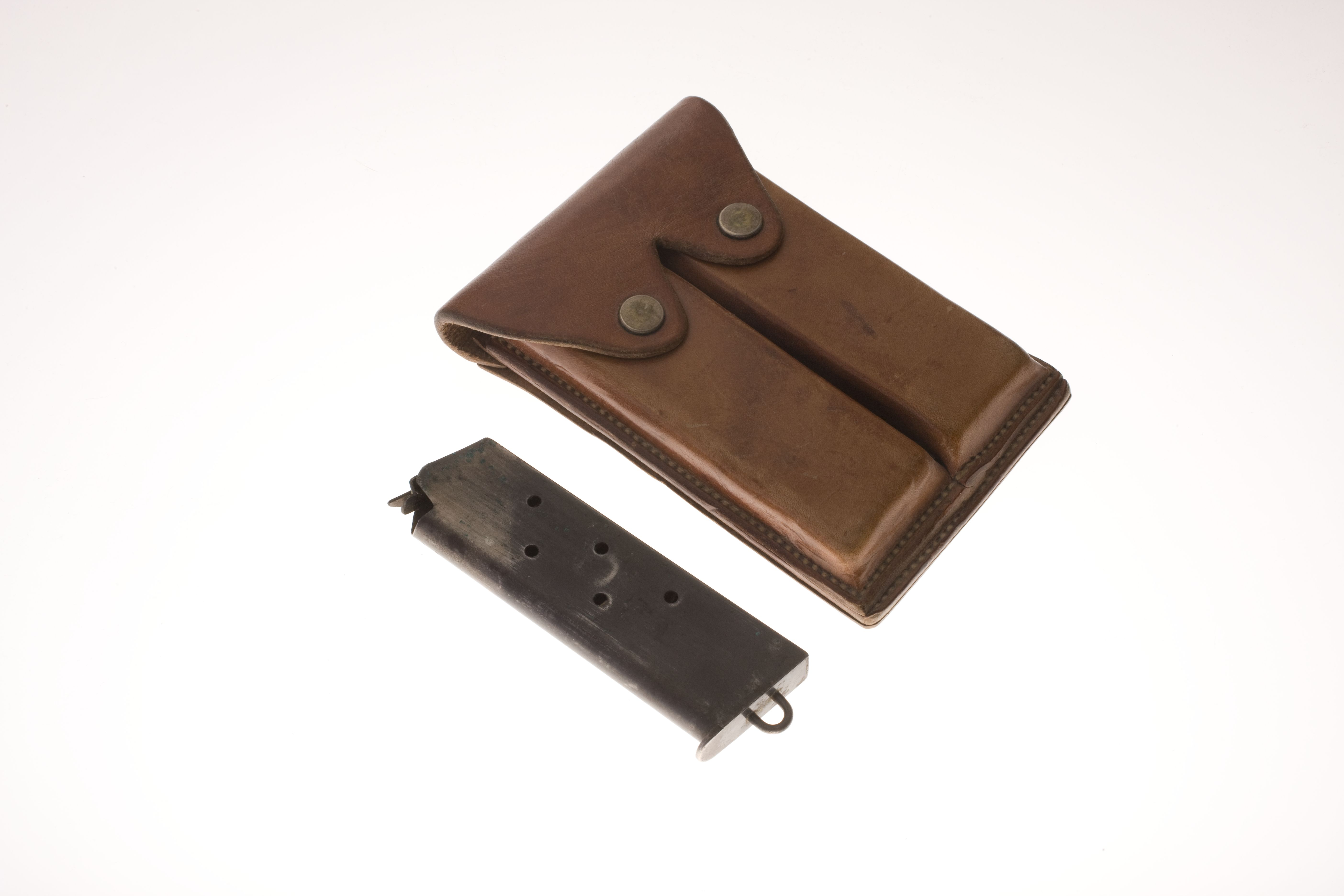 For more information on CIA history and this artifact please visit